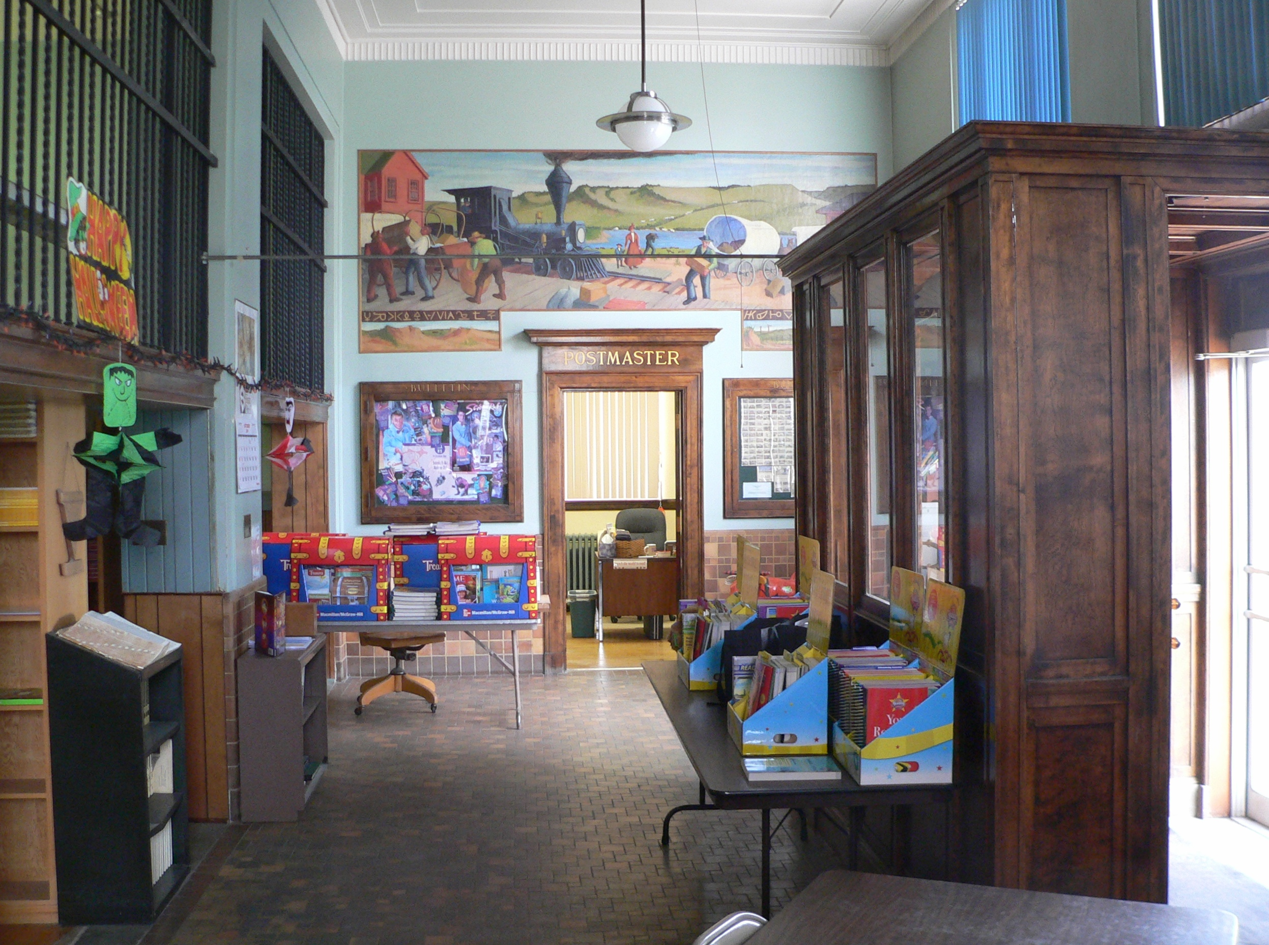 Interior of former post office, located at 348 N. Main Street in Valentine, Nebraska. The wood vestibule at right leads to the front (west) door. Note the mural above the door to the former postmaster's office.